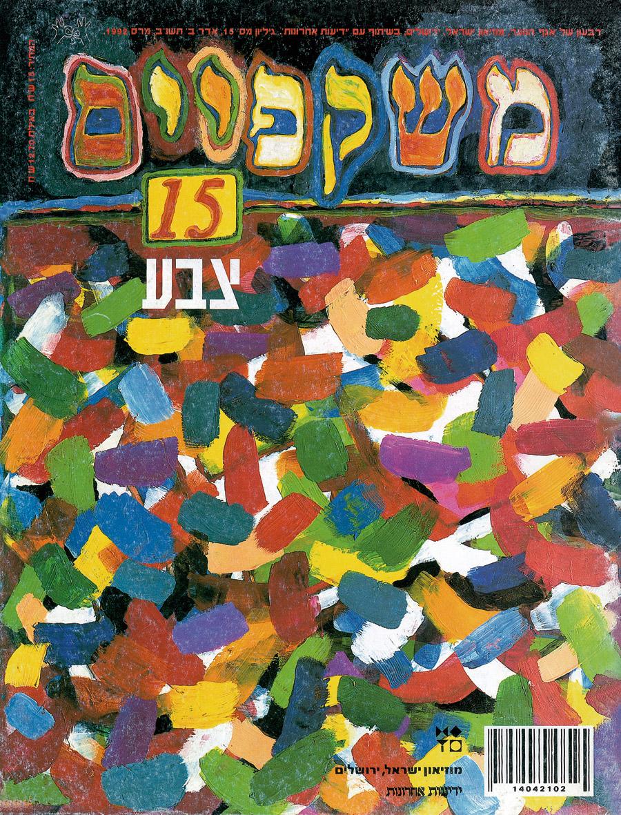 תמונת השער של גיליון משקפיים בנושא צבע